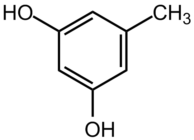 Chemical structure of orcine